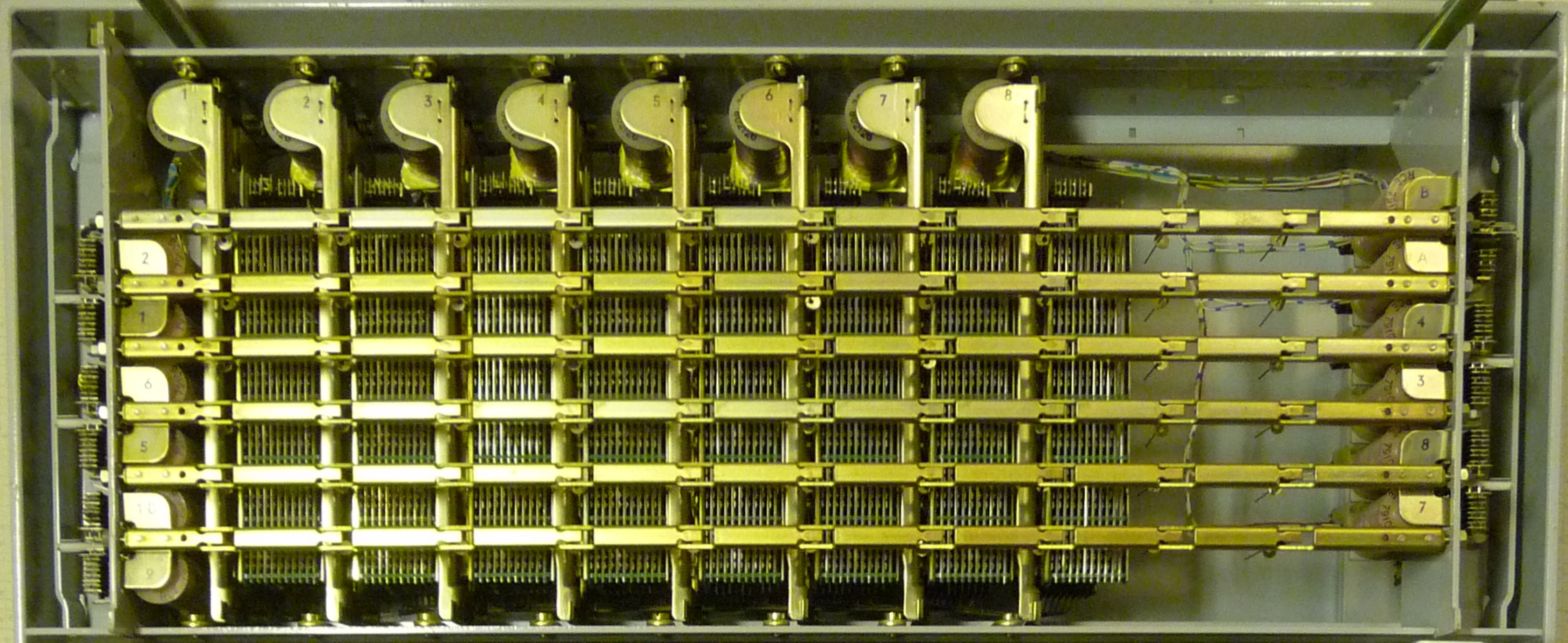 Crossbar switch made by LM Ericsson, mounted in a ARD636 PBX.